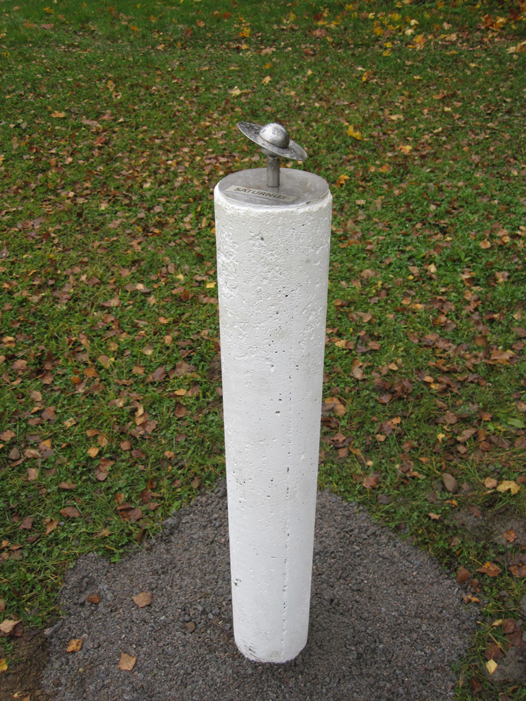 Saturn of Akaa Solar System Scale Model